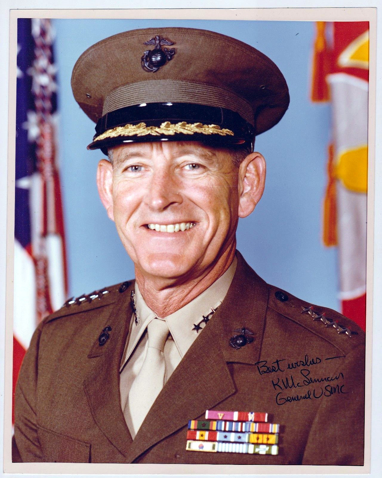 General Kenneth McLennan, USMC, official photo